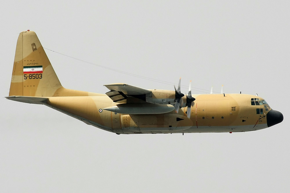 A flying C-130 Hercules of The Islamic Republic of Iran Air Force.